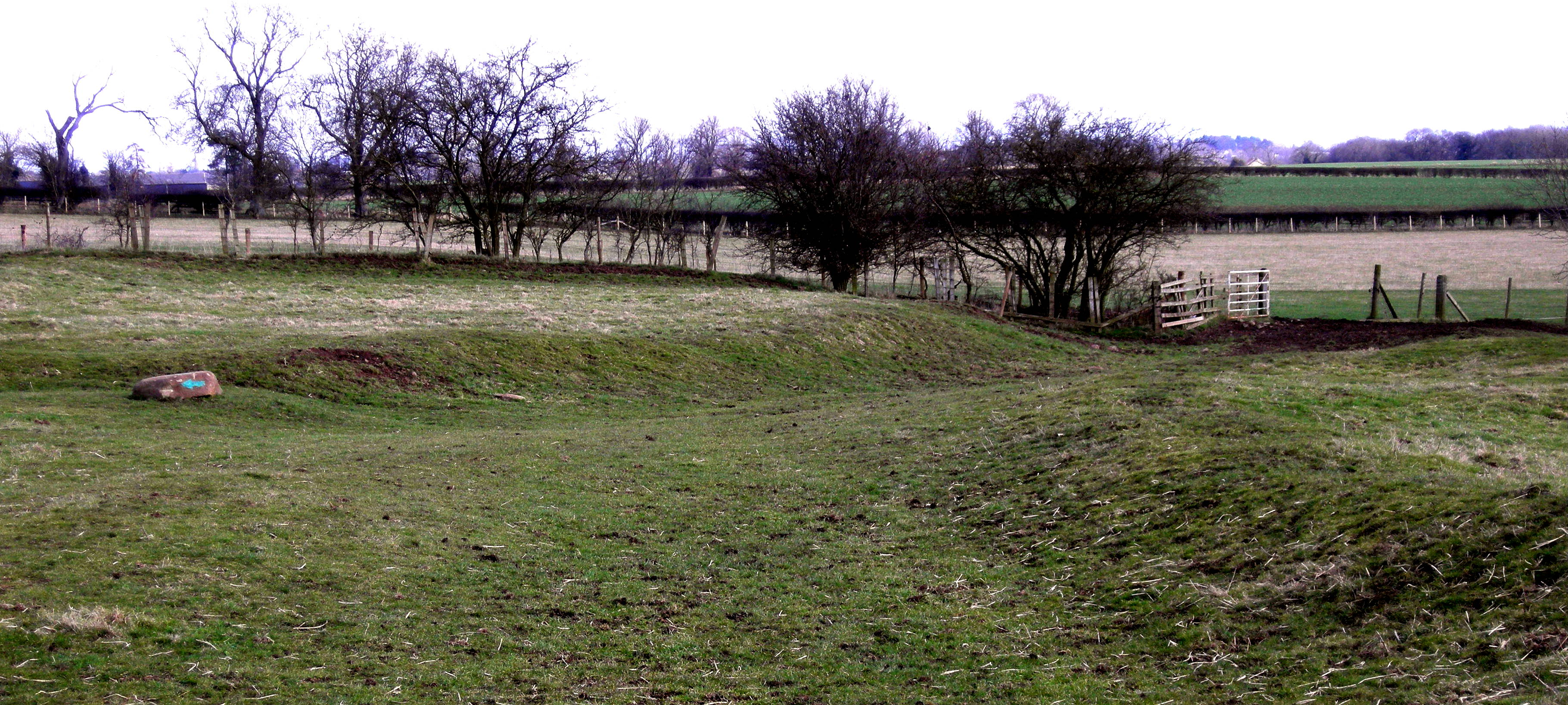 The lost village of Ulnaby, County Durham, England. Occupied 13th-16th century; now visible only as lumps and bumps in a field at Ulnaby Hall Farm. East-west hollow way leading to toft village. Picture adjusted specially to show up lumps and bumps in ground.